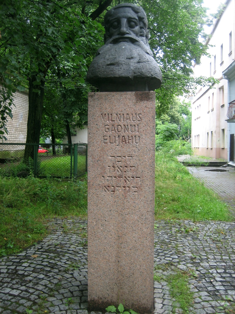 A small monument to the Saintly Genius of Vilnius.